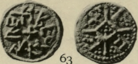 A sceat of King Beonna of East Anglia, middle of the 8th century. The legends are read as "BEON[N]A REX" on the obverse and "EFE", perhaps the moneyer's name, on the reverse.